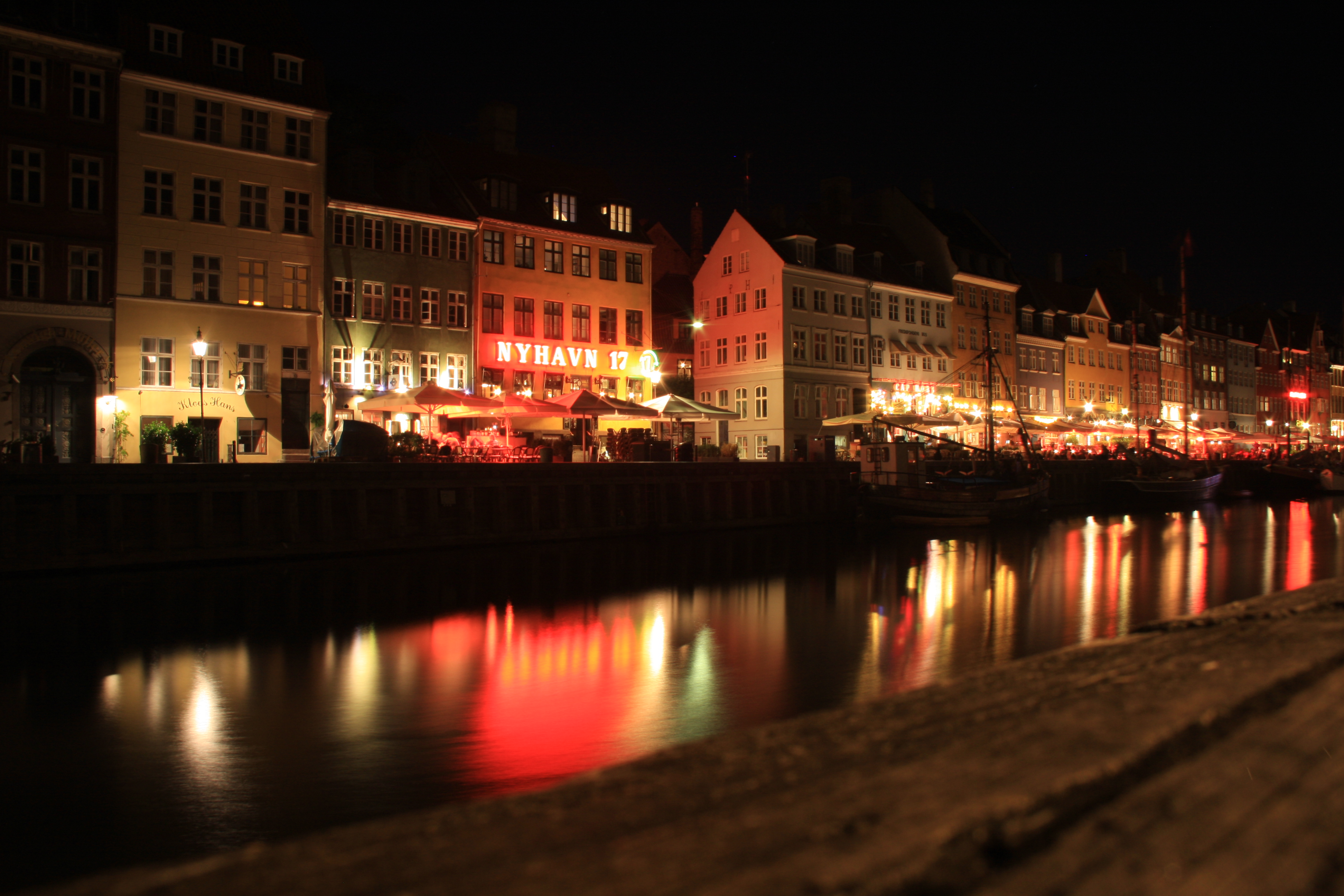 Nyhavn, København